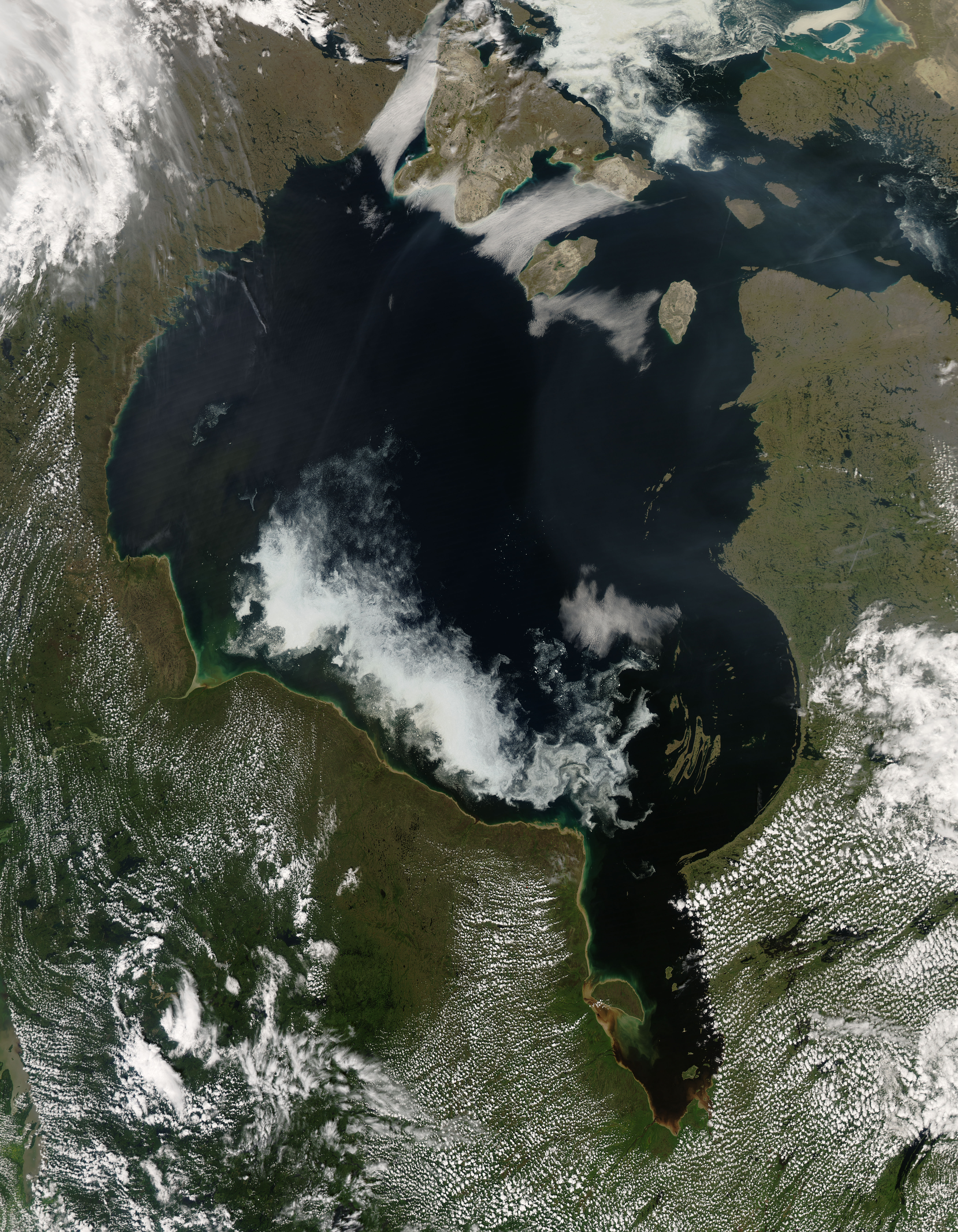 The Hudson Bay, and the smaller James Bay that protrudes south between the Ontario and Quebec provinces.